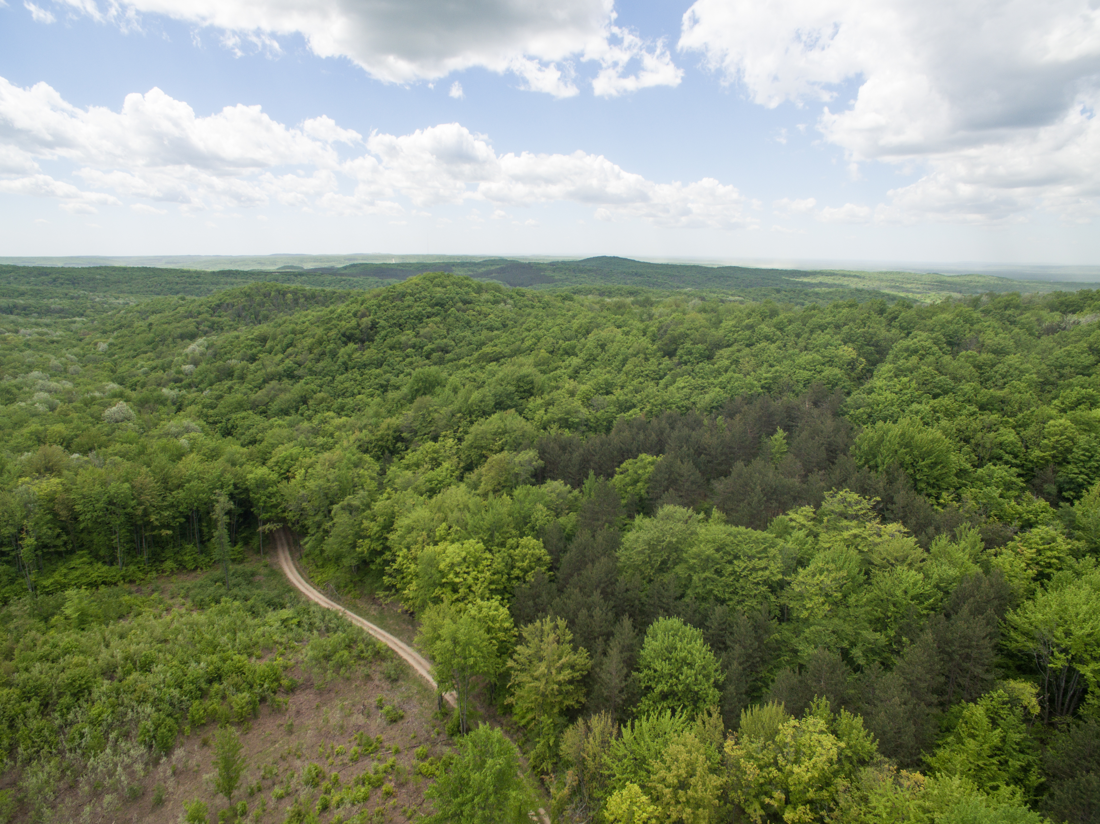 Showing the timber practices of the USFS